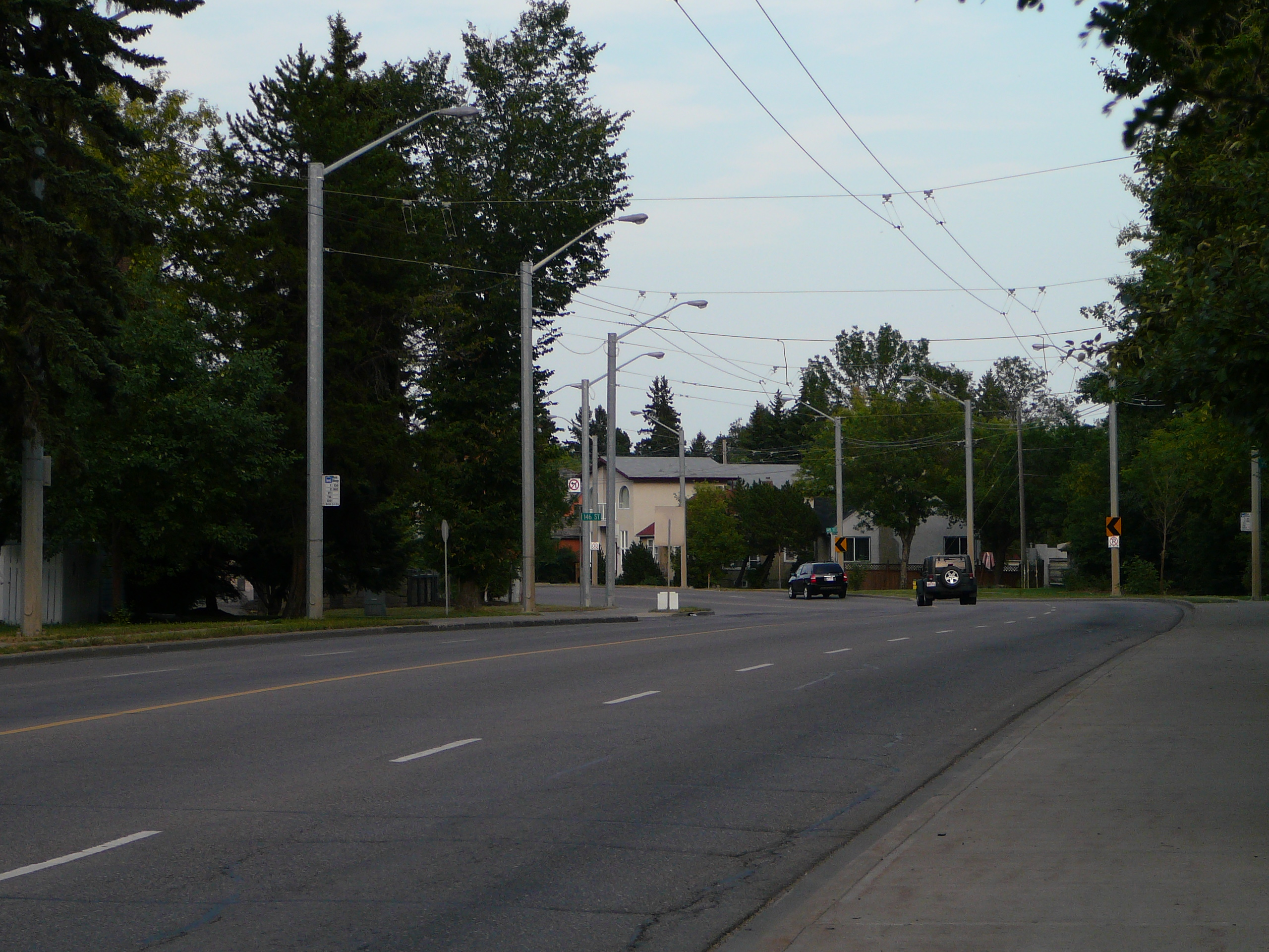 Edmonton's Stony Plain Road in the neighbourhood of Grovenor.